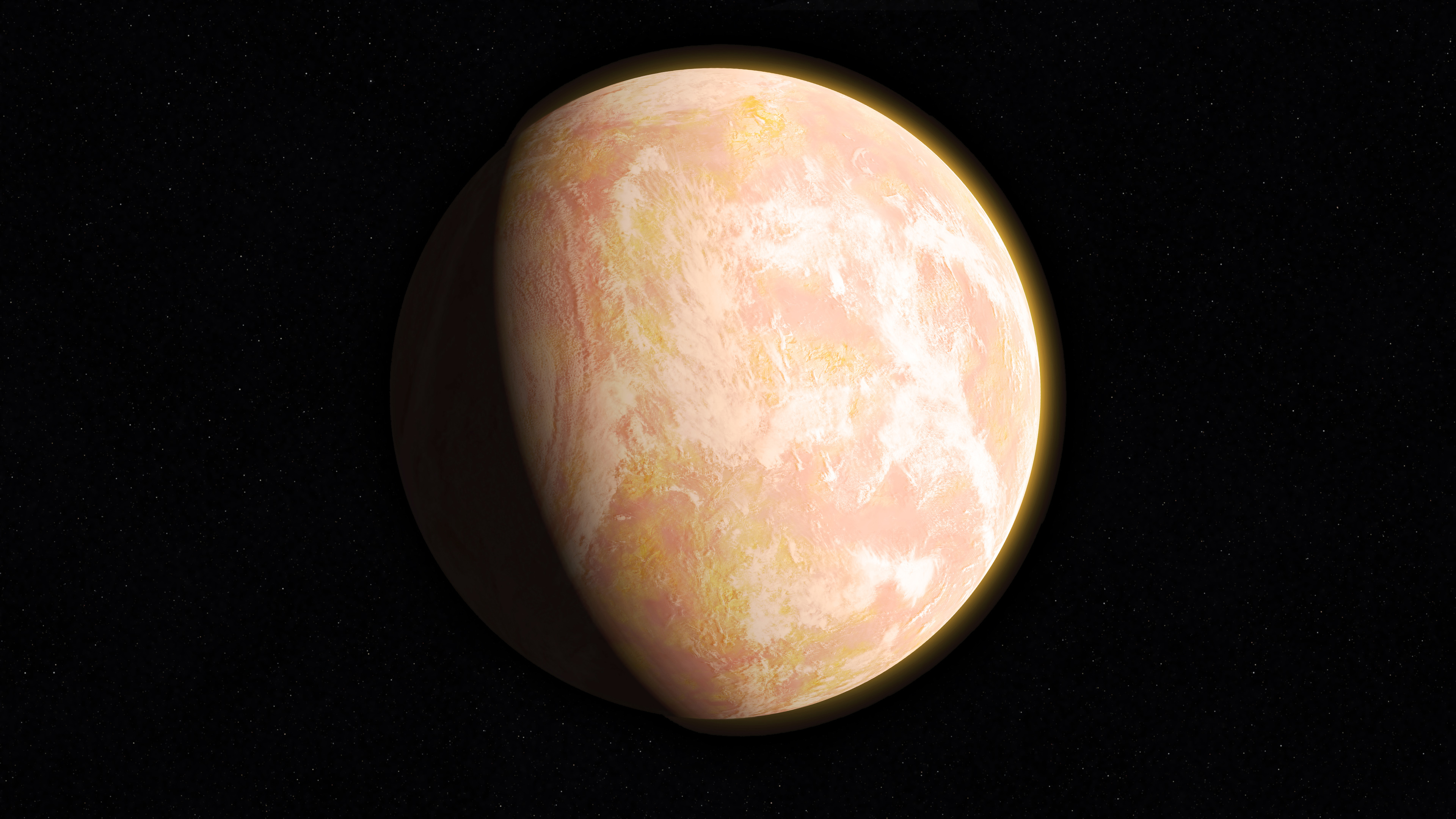 When haze built up in the atmosphere of Archean Earth, the young planet might have looked like this artist's interpretation - a pale orange dot. A team led by Goddard scientists thinks the haze was self-limiting, cooling the surface by about 36 degrees Fahrenheit (20 Kelvins) – not enough to cause runaway glaciation. The team’s modeling suggests that atmospheric haze might be helpful for identifying earthlike exoplanets that could be habitable.